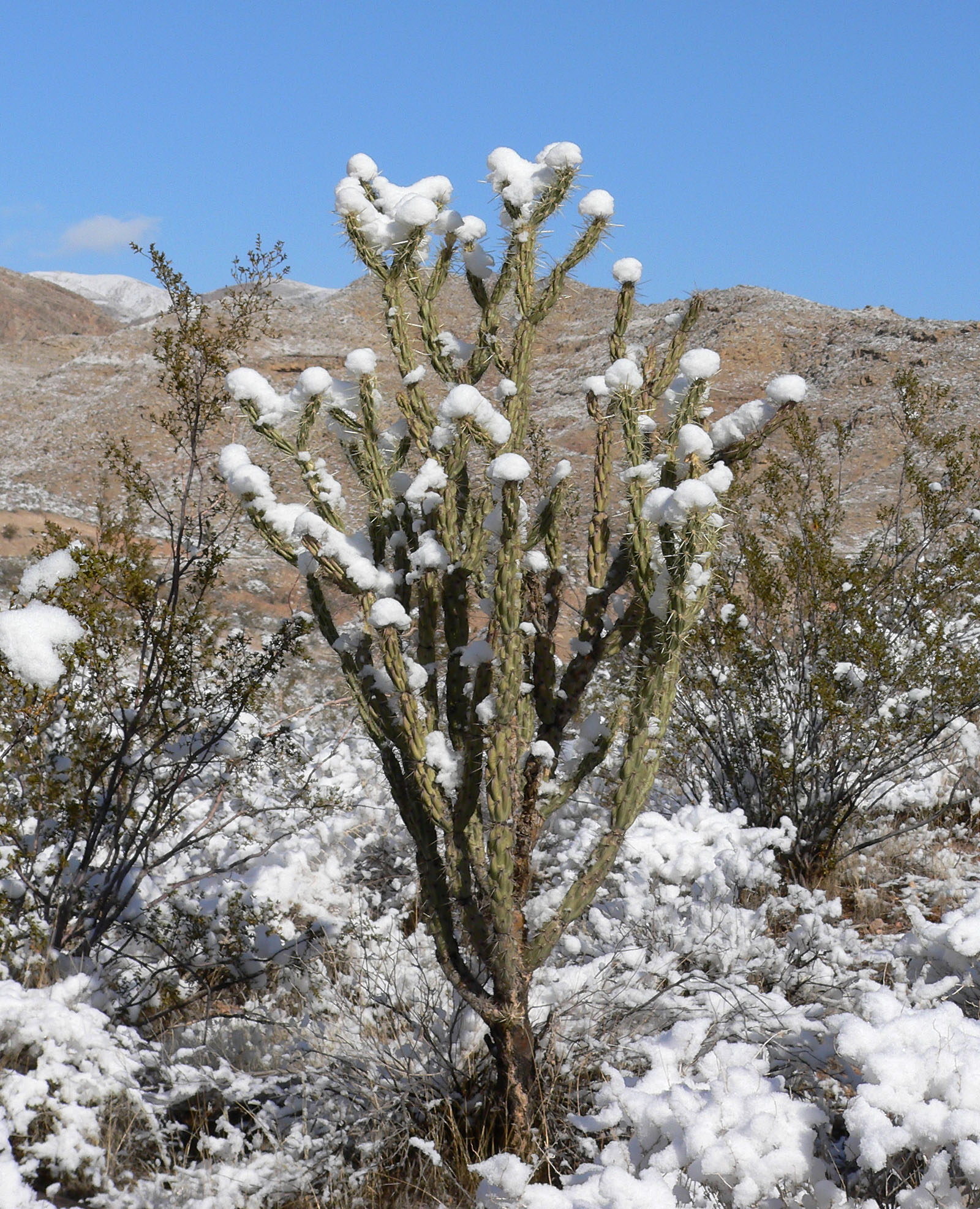 Snow-covered Cylindropuntia acanthocarpa at Virgin River Canyon Recreation Area, Arizona